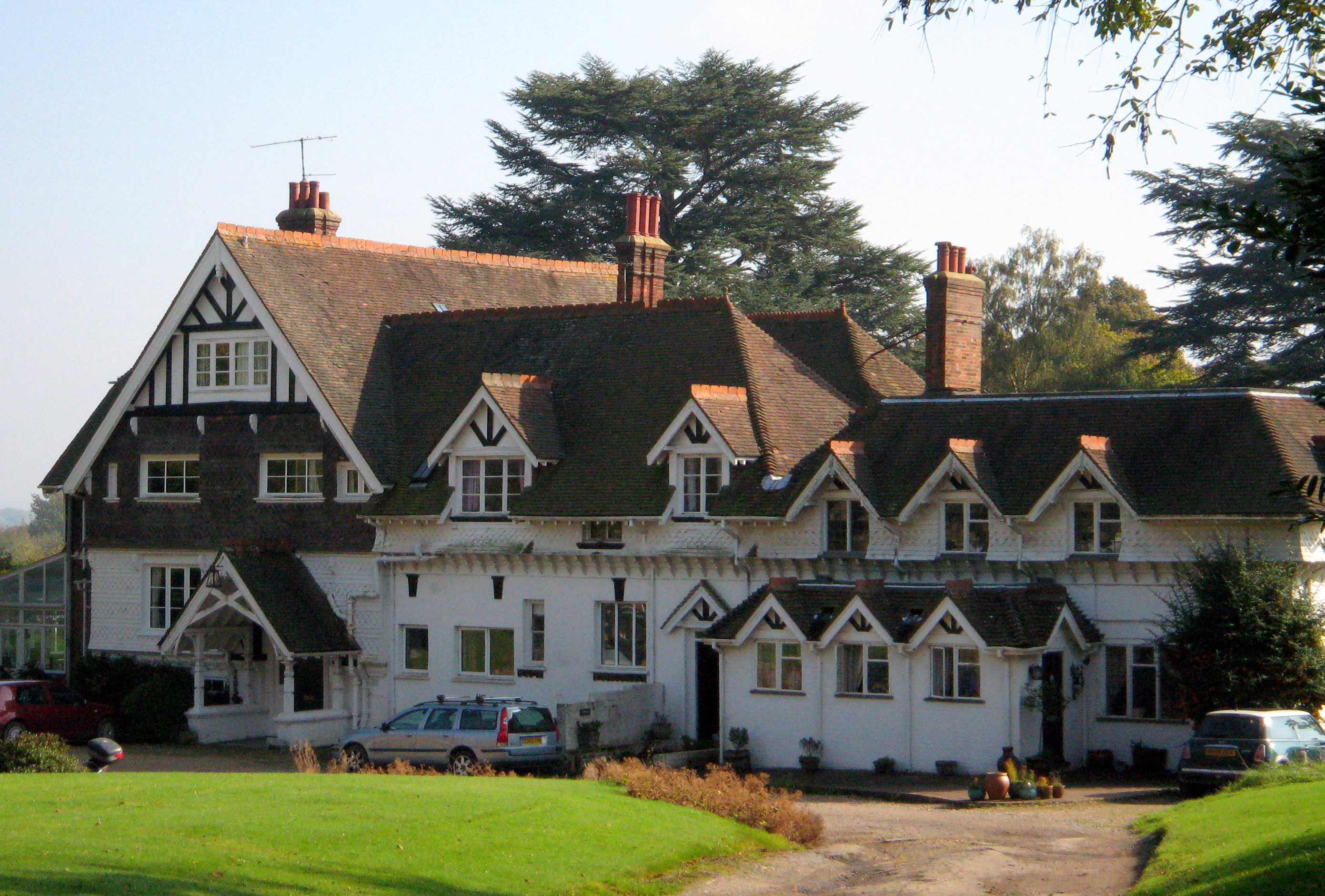 Brookhurst Grange, Ewhurst, Surrey, England. Former home of Jonathan King, English record producer